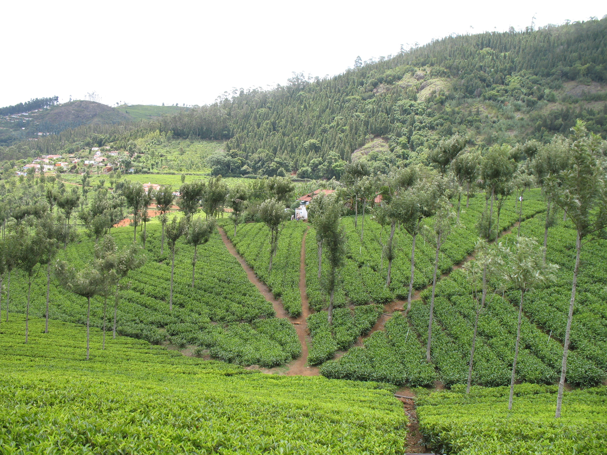 Tea plantations at Nilgiris